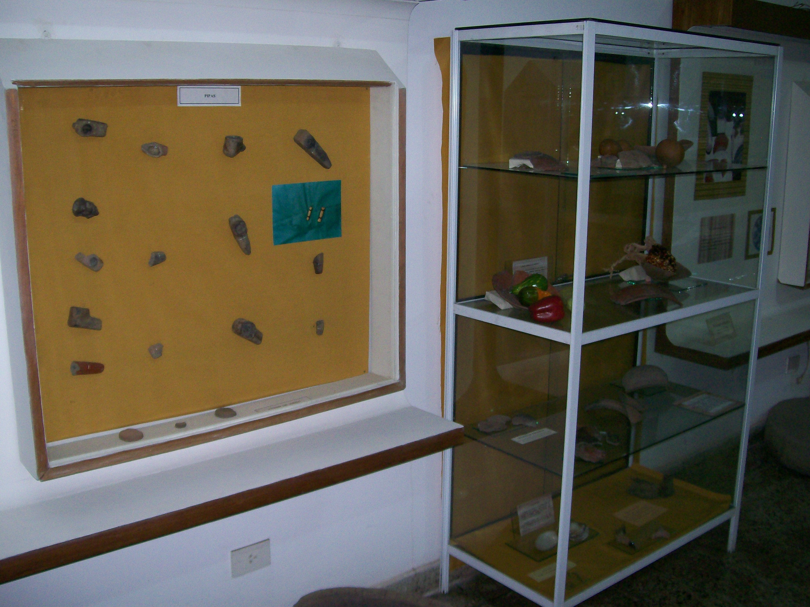 Arhaeological material exhibited on Museo Regional de Antropología, Resistencia, Chaco, Argentina. Pipes and game stuff exhibited in left panel. Right panel exhibits dishes, ceramics, and other stuff. All taken from Ruins of km 75 in Chaco province, Argentina.